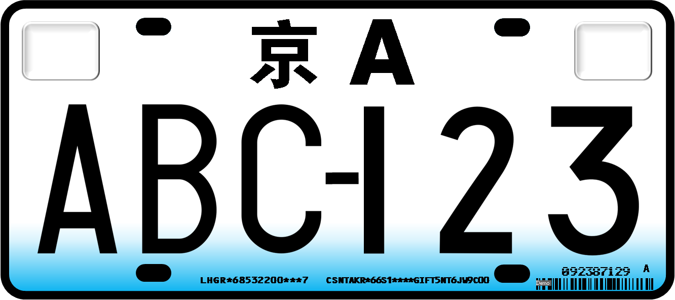 2002 Edition Vehicle license Plate of P.R.China